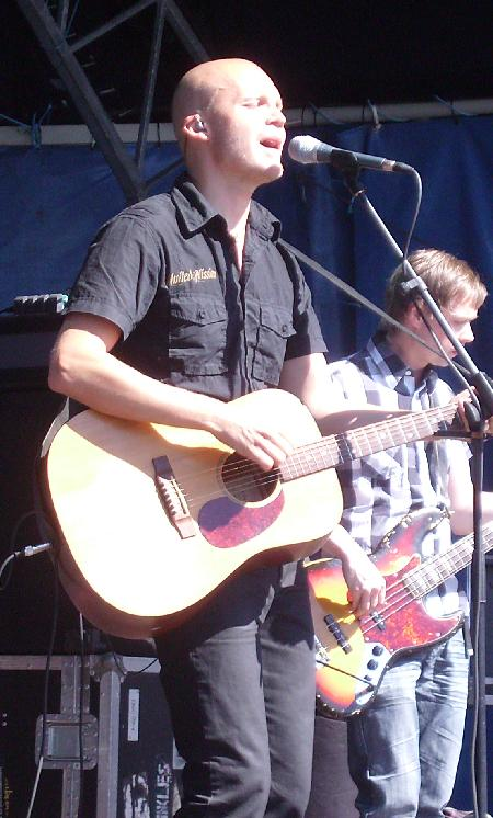 Juha Tapio in PowerPark